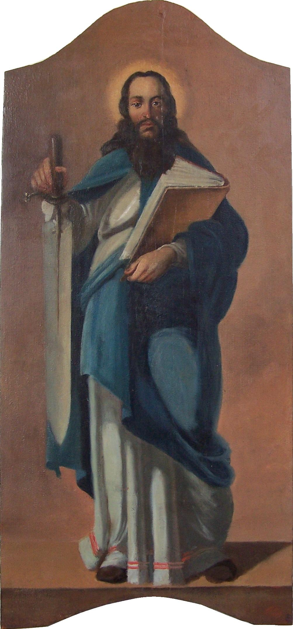 The picture is a Greek Catholic icon depicting apostle Paul or Paul of Tarsus holding a sword that refers to his martyrdom. The icon was painted in the end of the 18th century as part of the iconostasis of the Greek Catholic Cathedral of Hajdúdorog, Hungary. Paul's icon is placed on the second tier of the iconostasis, the so called Twelve Apostles tier. This icon is the sixth painting from the right.